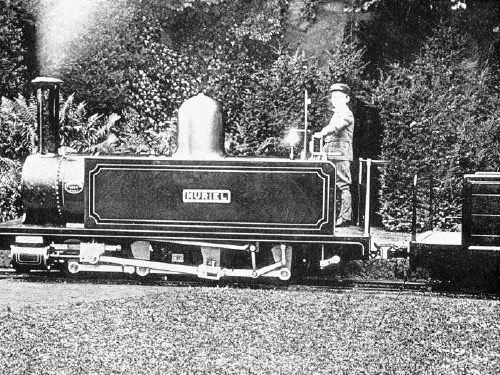 Muriel 3rd engine at Duffield Bank Railway